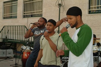 Native Deen performing in An-Najah School of Ramallah, Palestine.